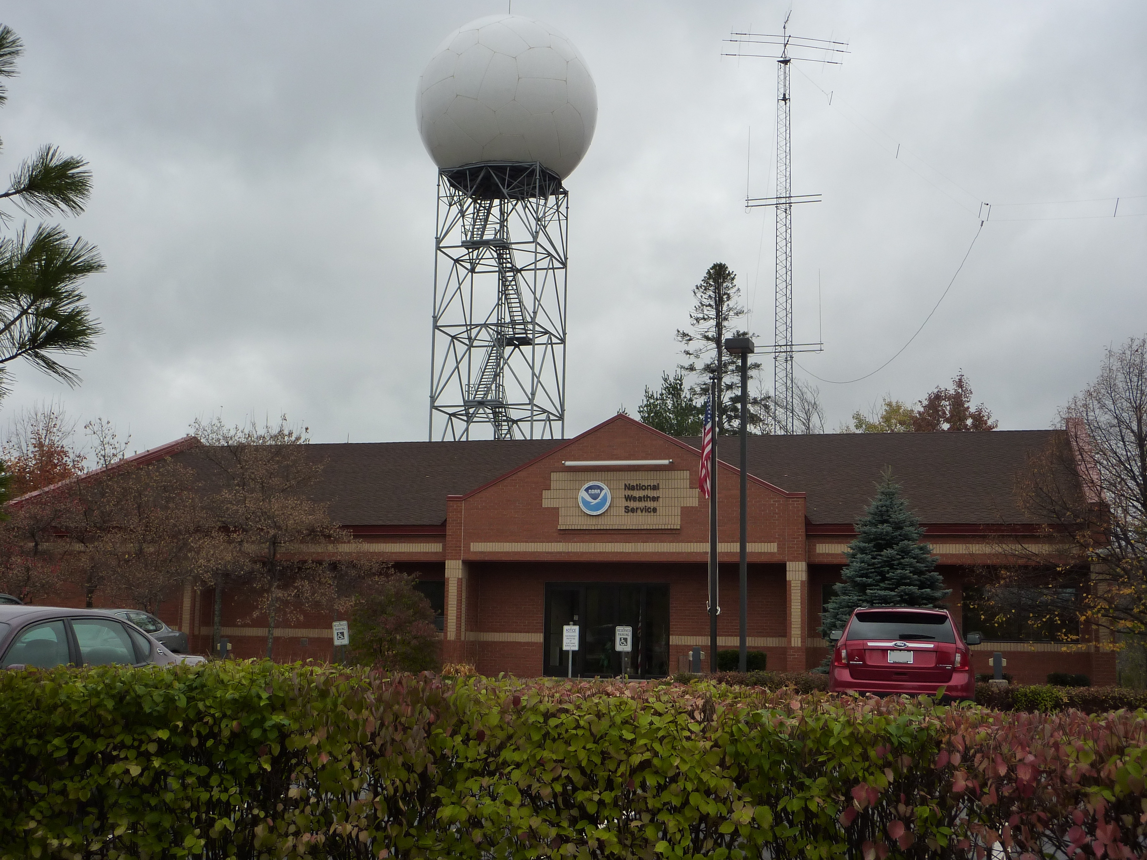 US National Weather Service Marquette office and radar in Negaunee Township, Michigan.